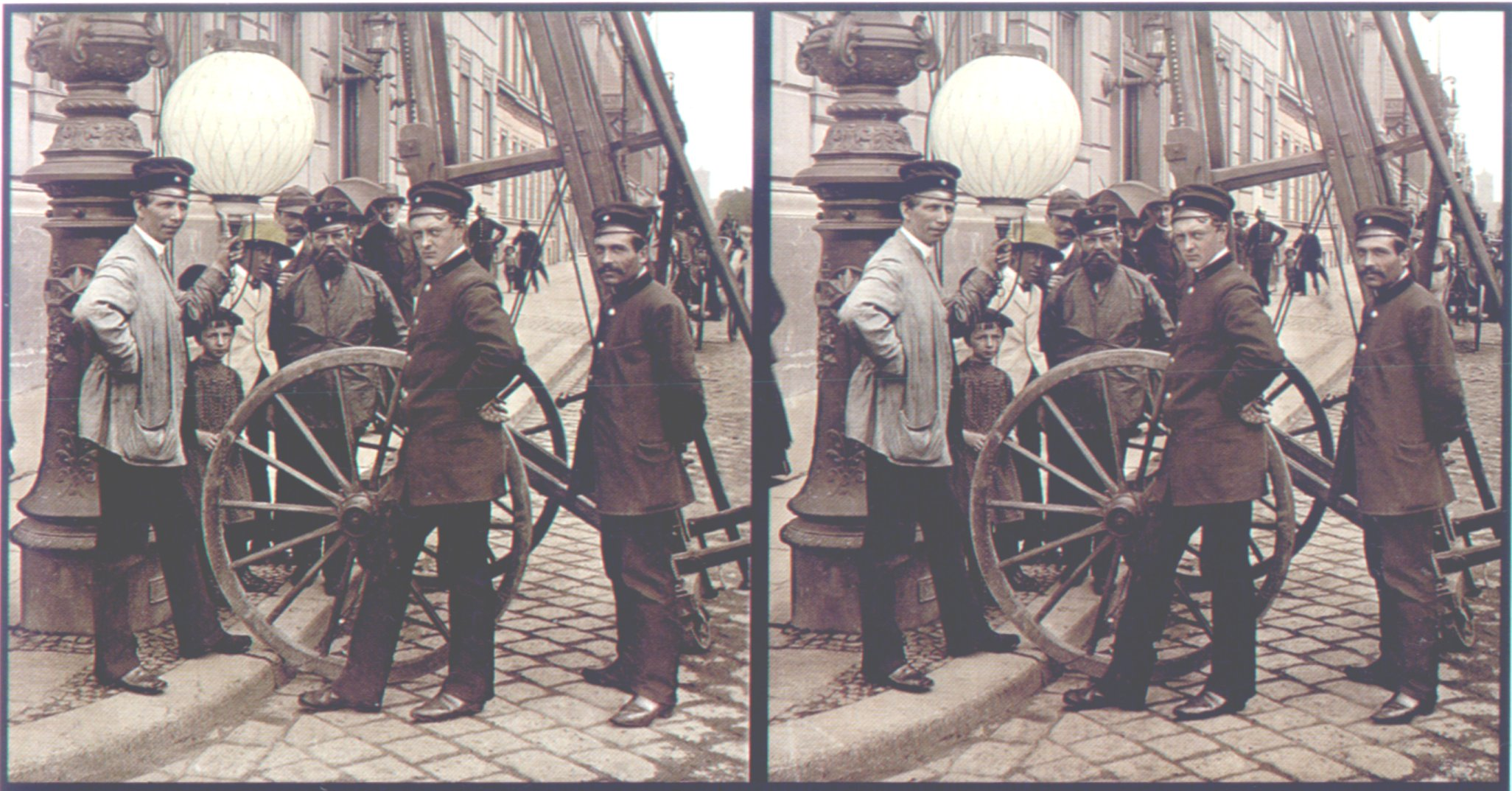 Stereoscopic photograph: Installation of a street lantern with an electric arc lamp in Berlin in 1890. – See this Siemens press photograph for an example of this sort of arc lamp.